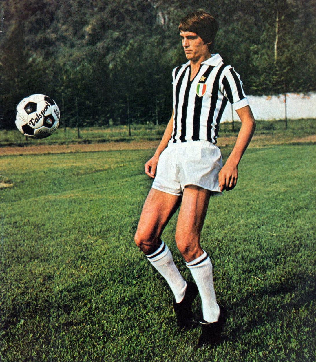 Italian footballer Marco Tardelli in action with Juventus F.C. at the beginning of the 1975–76 season.